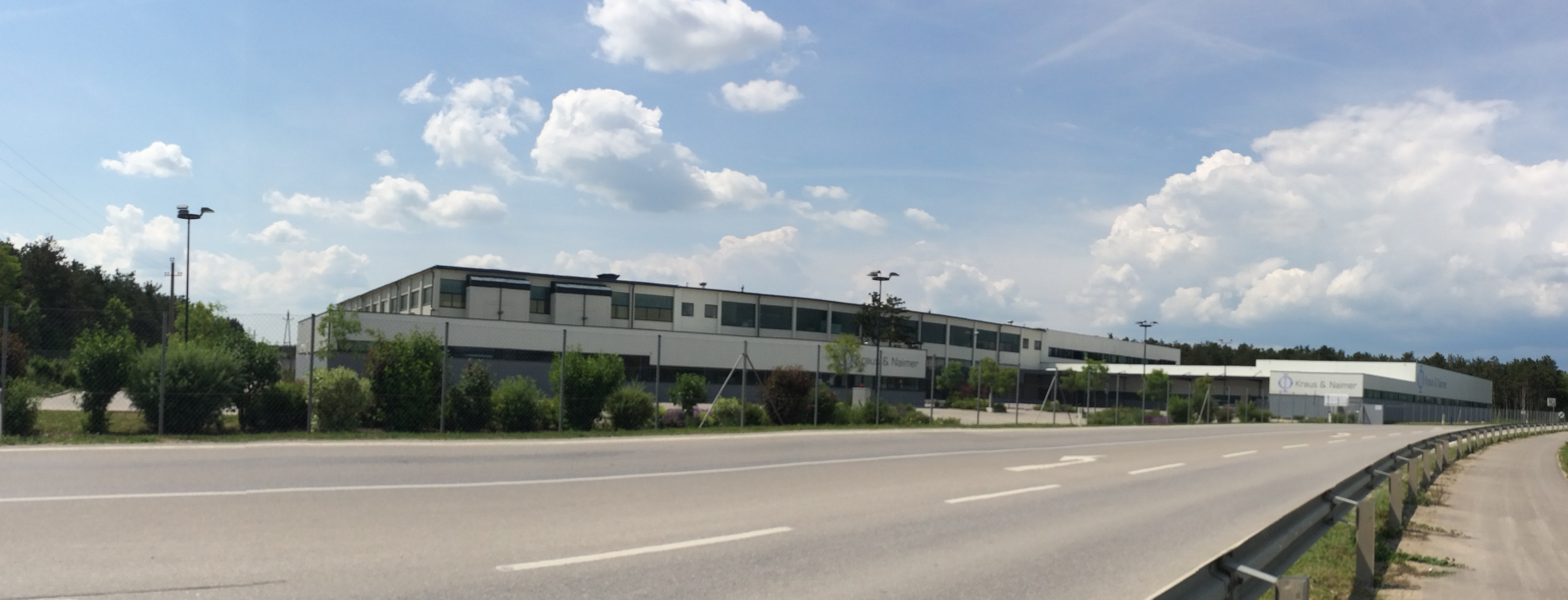 Production site of Kraus & Naimer in Weikersdorf am Steinfelde, Lower Austria